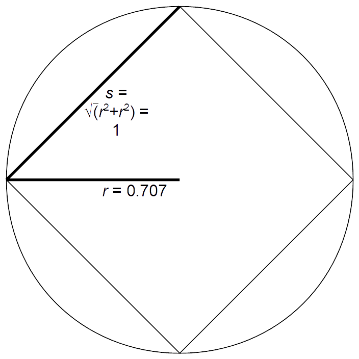 Radius of a regular polygon with n sides of length s is r = Rn s, where R n = 1 / ( 2 sin ⁡ π n ) . {\displaystyle R_{n}=1/\left(2\sin {\frac {\pi }{n \right).} This polygon has 4 sides of length 1, thus the radius is 0.7071067812.